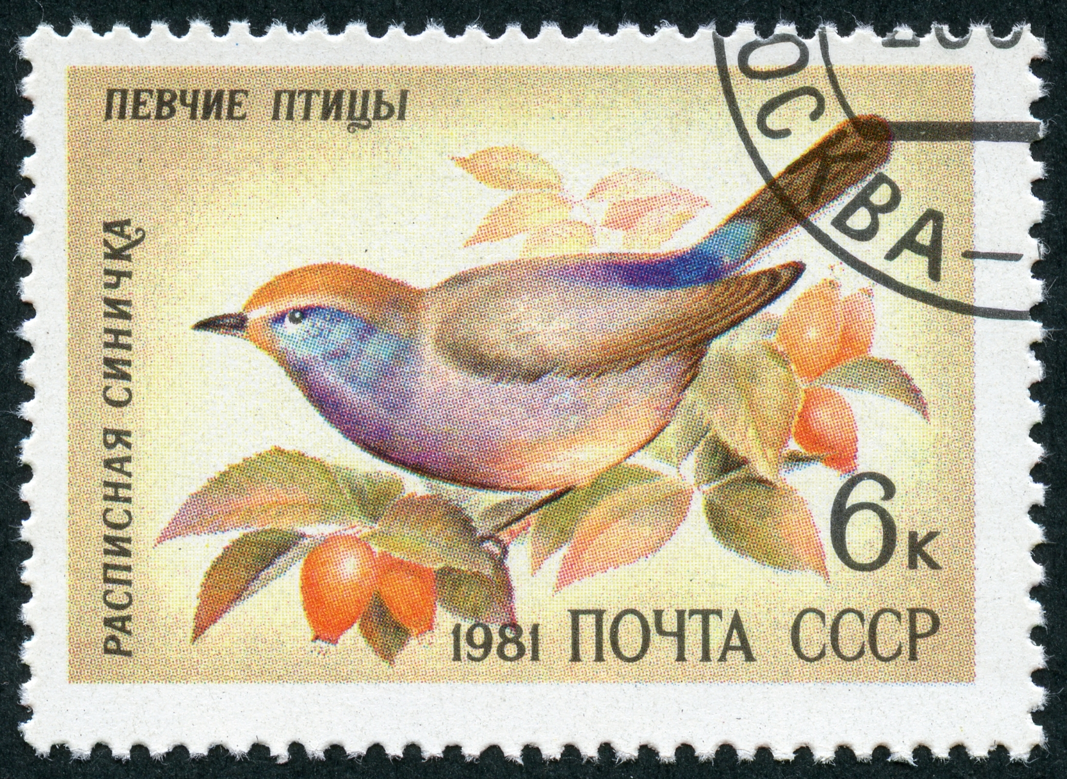 A USSR stamp